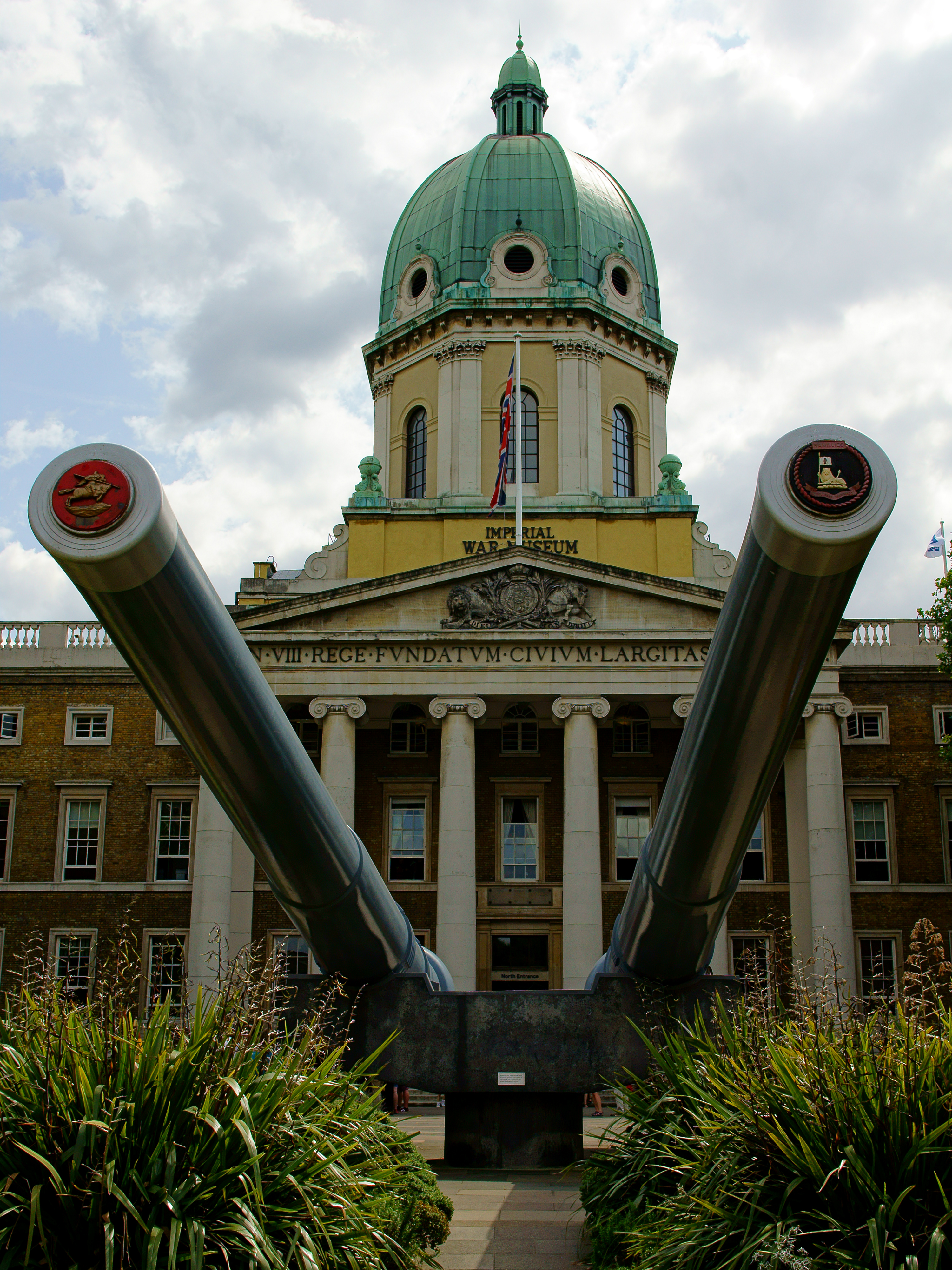 Big Guns at the Imperial War Museum